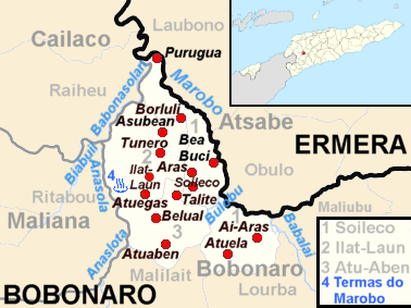 Marobo, East Timor